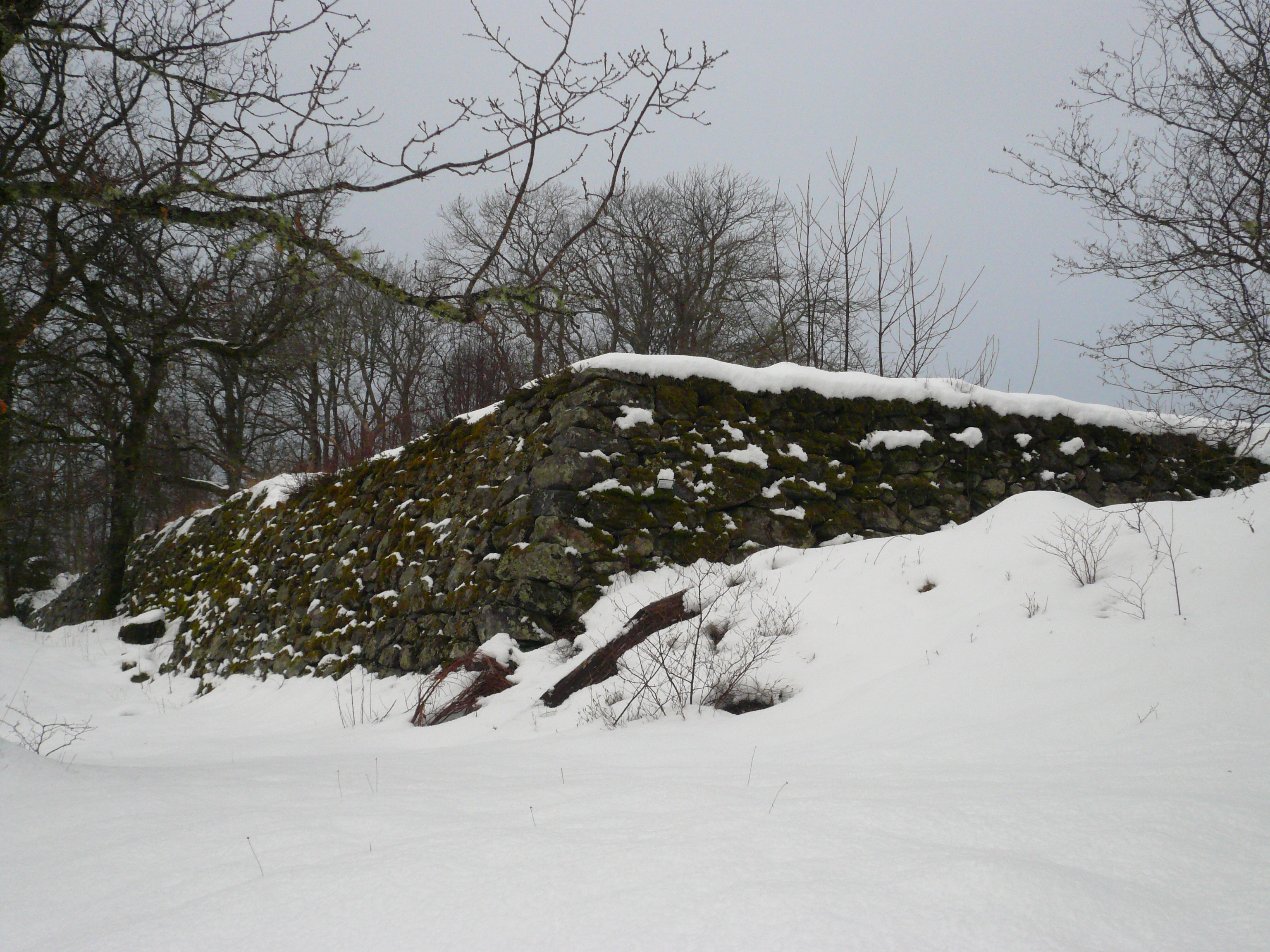 Garden wall at Store Milde, Bergen, Norway.